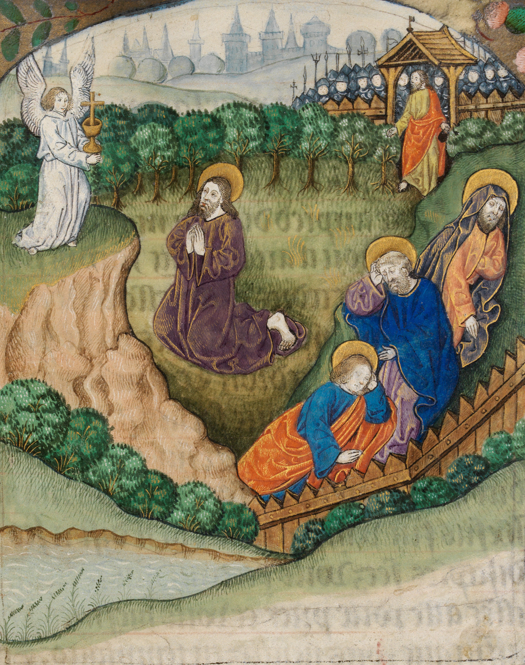 Christ praying in the garden of Gethsemane. Two shields of unidentified arms in borders, with motto “Entre tenir Dieu le viuelle”